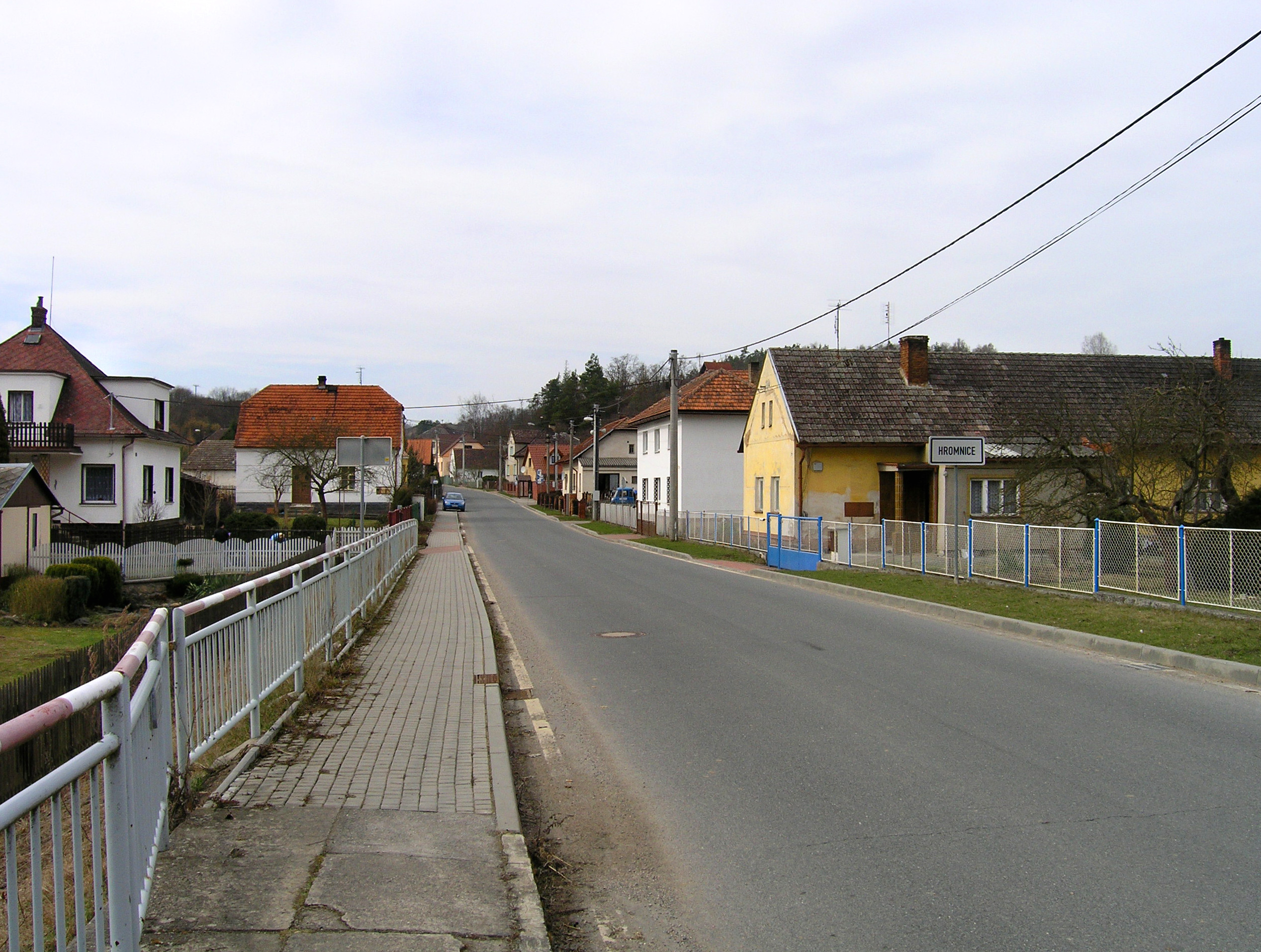 East part of Hromnice village, Czech Republic